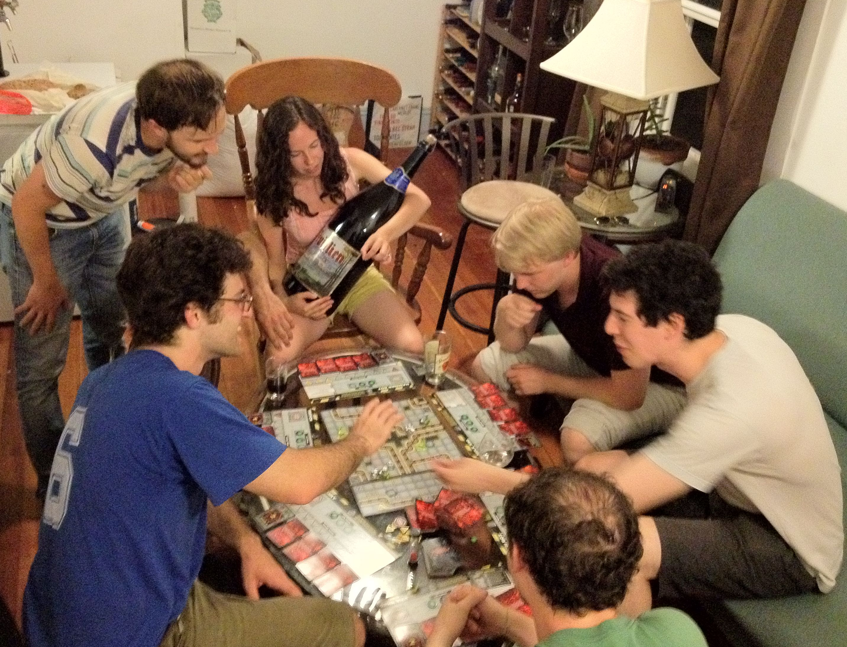 A group of board gamers play the board game "Robo Rally"